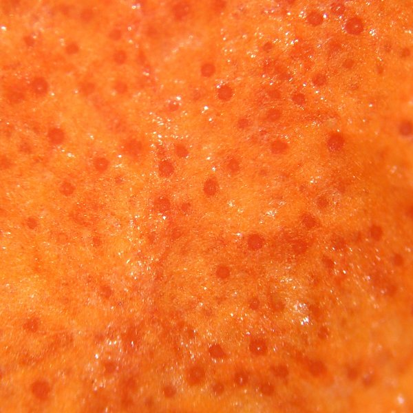 Scientific Name: Hypomyces lactifluorum Common Name: Lobster Mushroom Certainty: positive (notes) Location: Southern Appalachians; Smokies; CabinCove Fertile surface, at 30x. Tips of perithecia visible as dk spots.